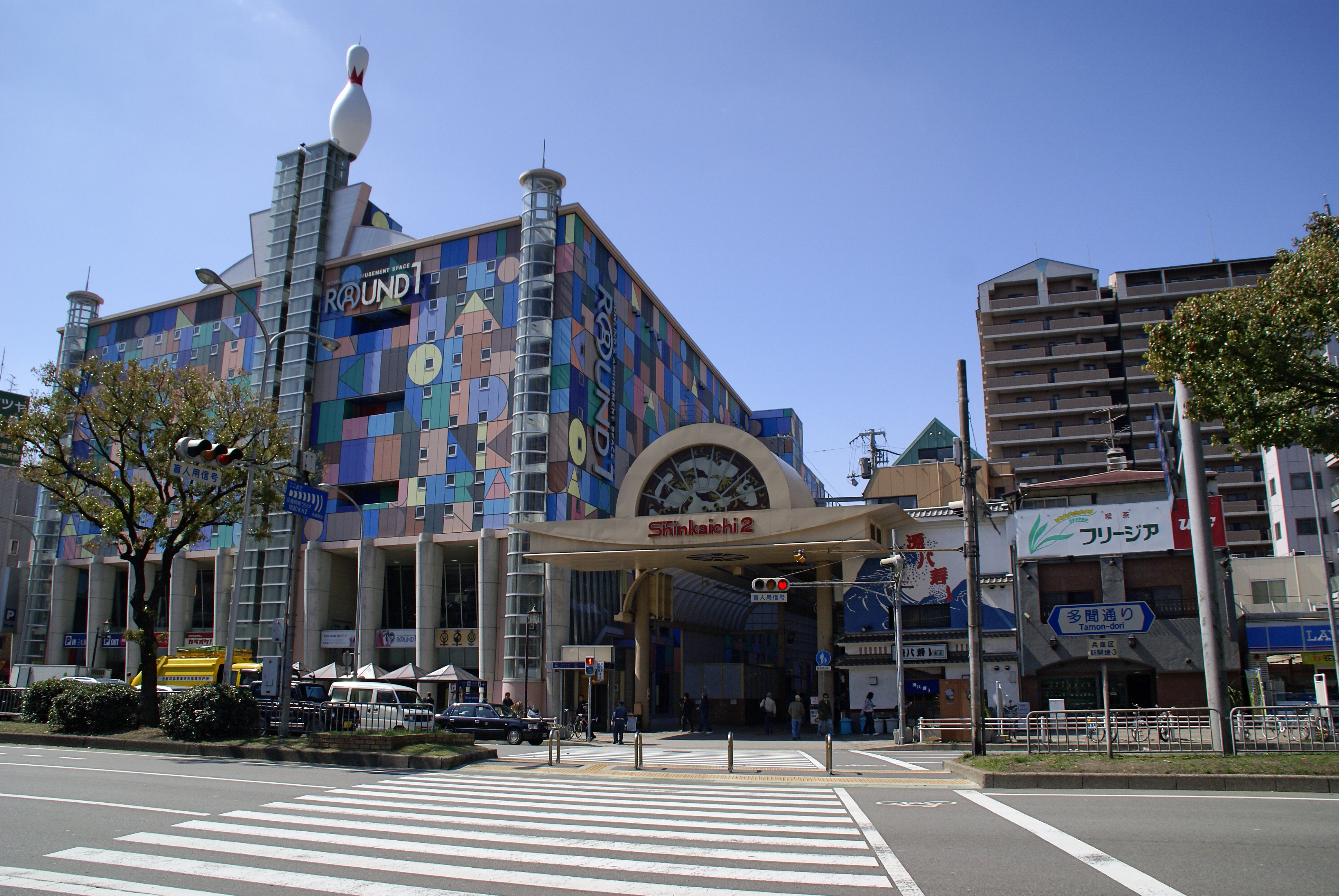 at Shinkaichi, Kobe, Hyogo prefecture, Japan